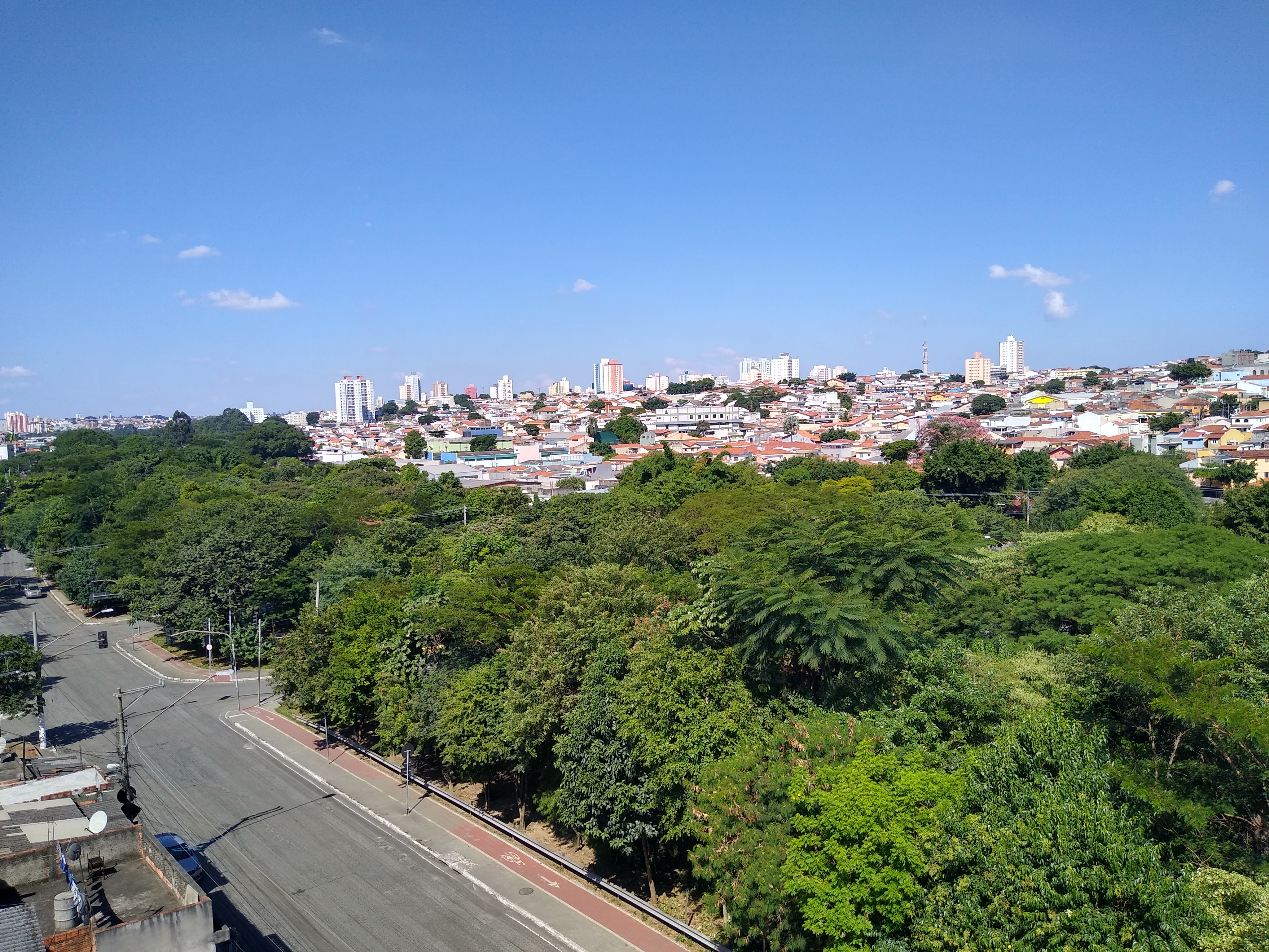 AV Governador Carvalho Pinto